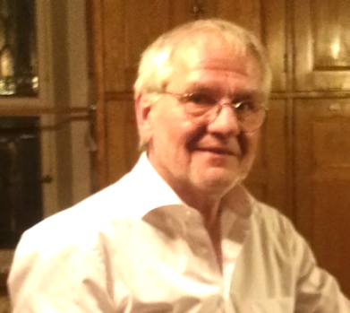 Reinhard Goebel photographed in Montréal , Québec, Canada at the St. Viateur Church.